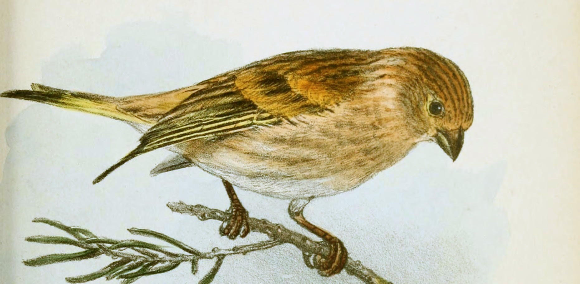 « Serinus aurifrons » = Serinus syriacus (Syrian Serin)